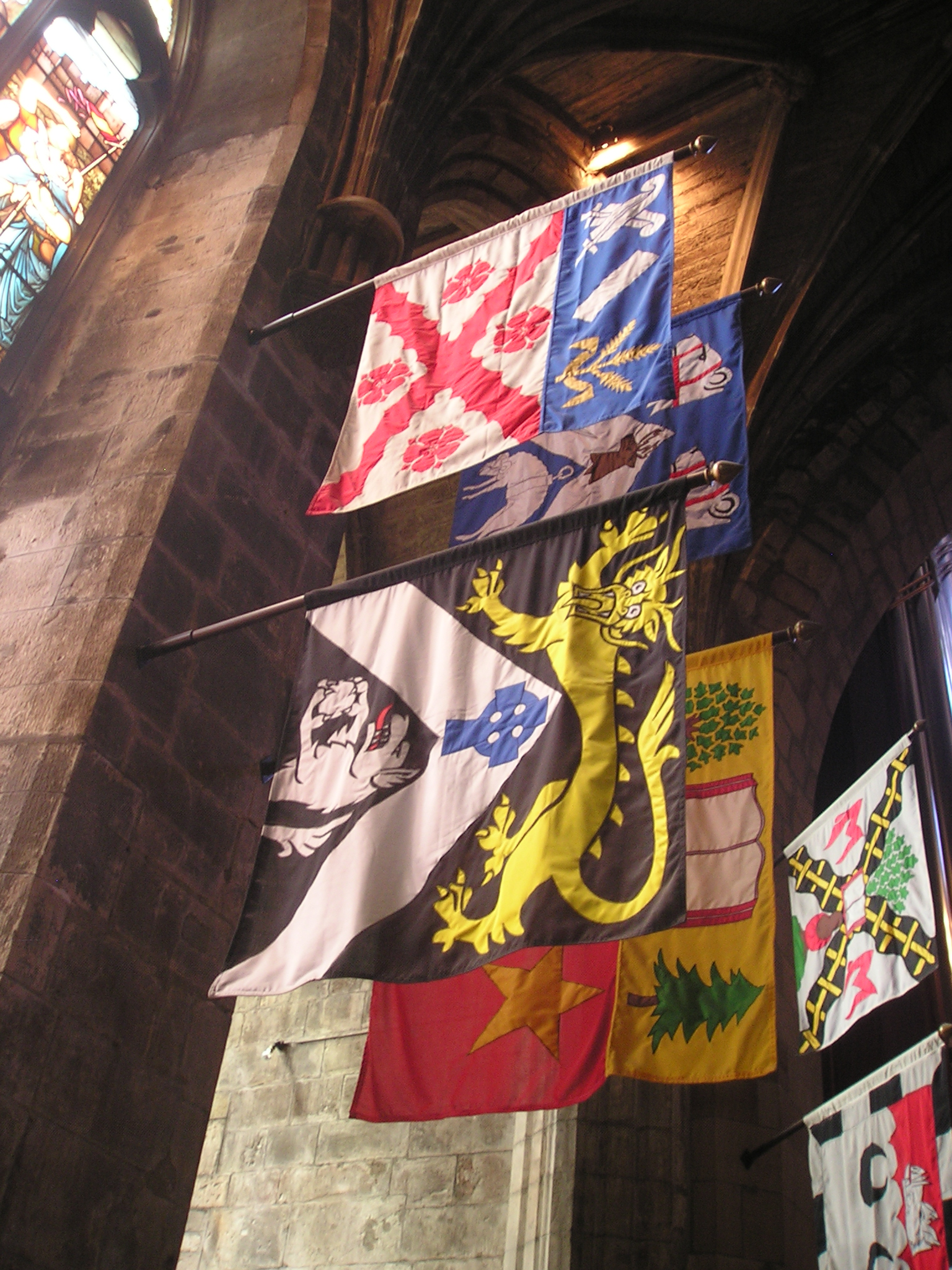 Banners of Knights of the Thistle, hanging in St Giles Cathedral in Edinburgh.